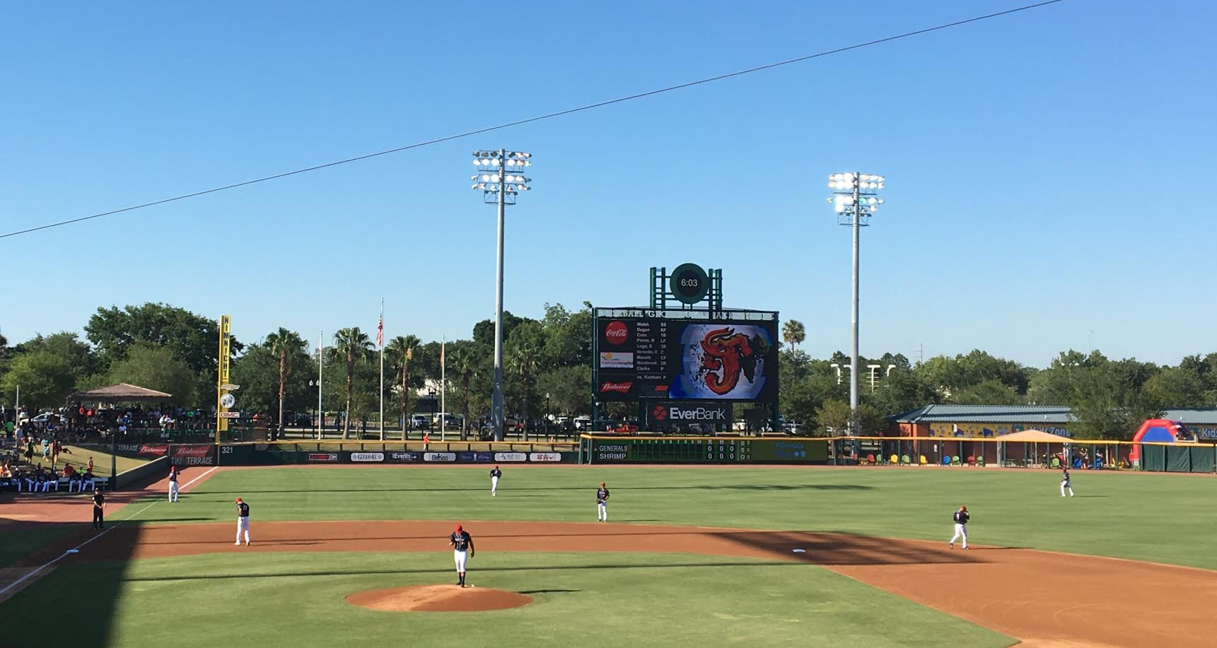 Jacksonville Jumbo Shrimp game on May 27, 2017